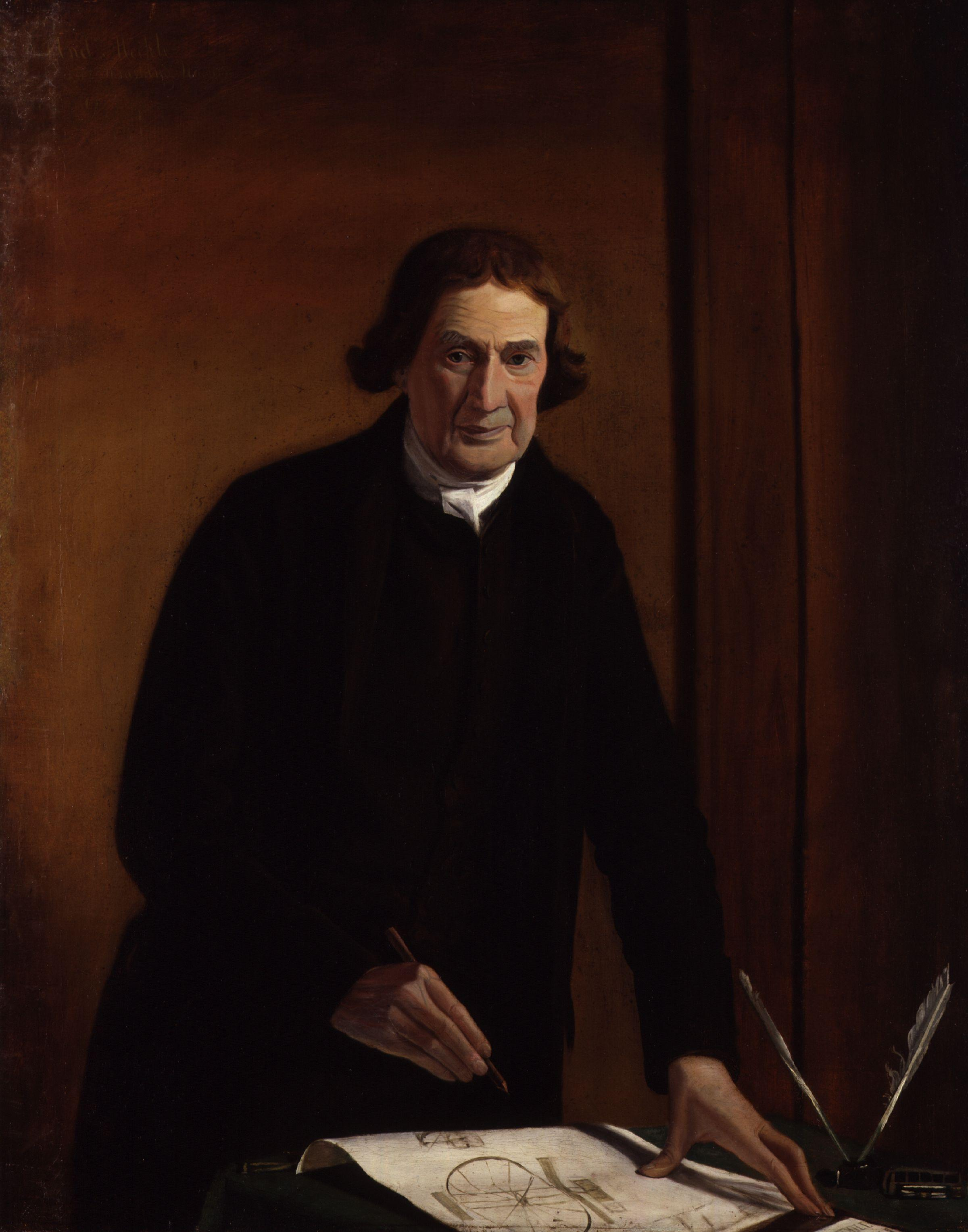 Andrew Meikle (1719 – 27 November 1811) was an early mechanical engineer credited with inventing the threshing machine, a device used to remove the outer husks from grains of wheat., Painting by A. Reddock (floruit 1800).